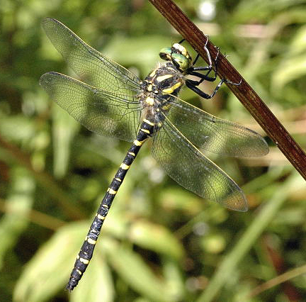 Picture taken in Commanster, Belgian High Ardennes . Species: Cordulegaster boltonii adult